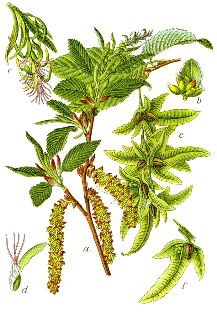 Carpinus betulus L. Original Caption Hagebuche, Carpinus betulus